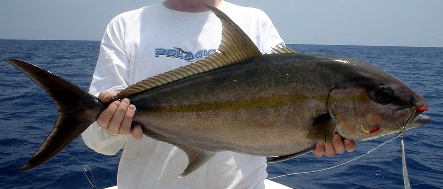 An amberjack jigged up from the rockpile off Cape Hatteras, NC.